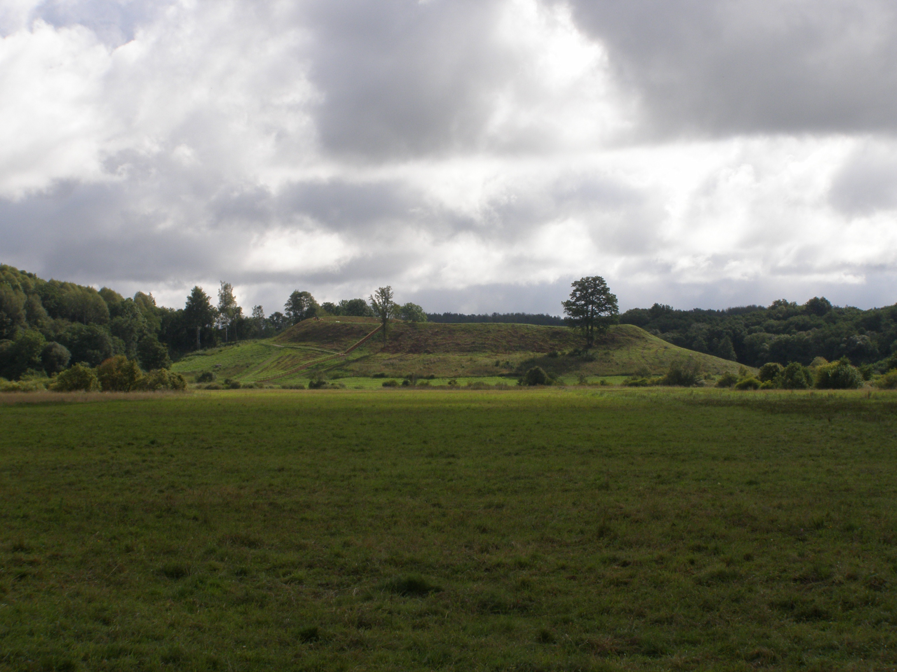 Imbarė hillfort, Kretinga district, Lithuania